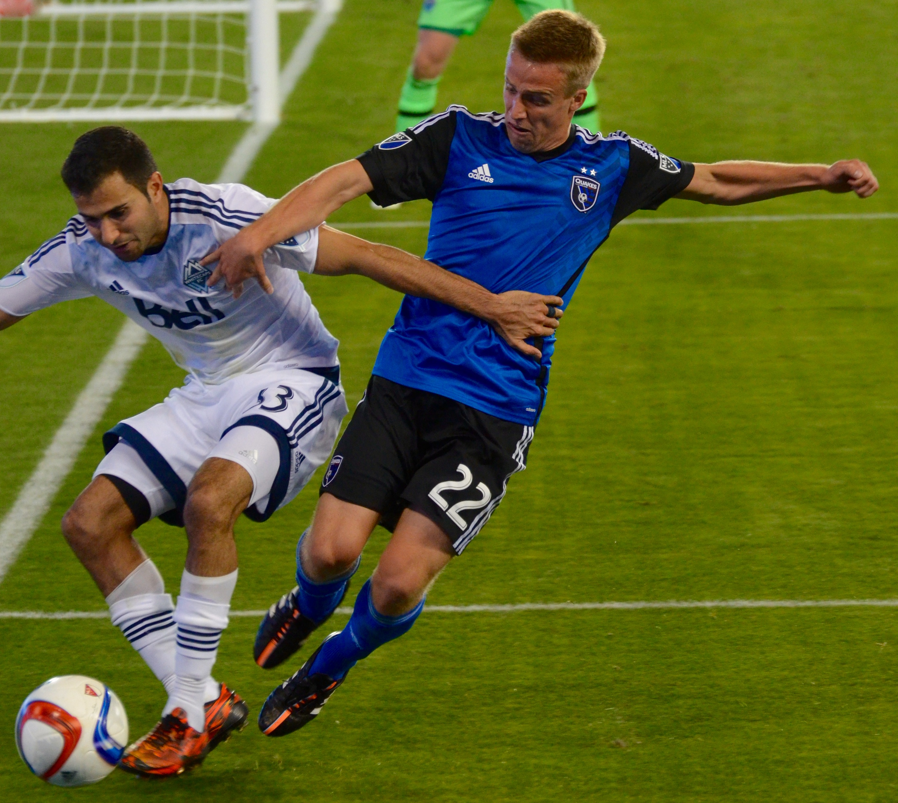 Tommy Thompson battles Steven Beitashour for the ball at Avaya Stadium on 11 April 2015